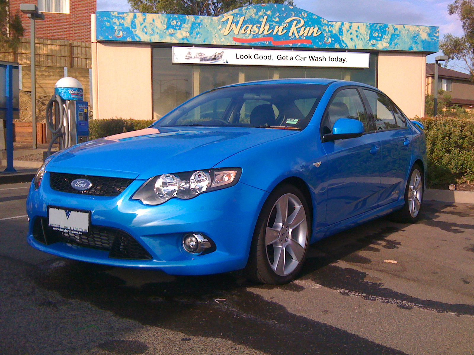 Photo of a 2009 FG XR6 Turbo with optional 19 inch wheels.